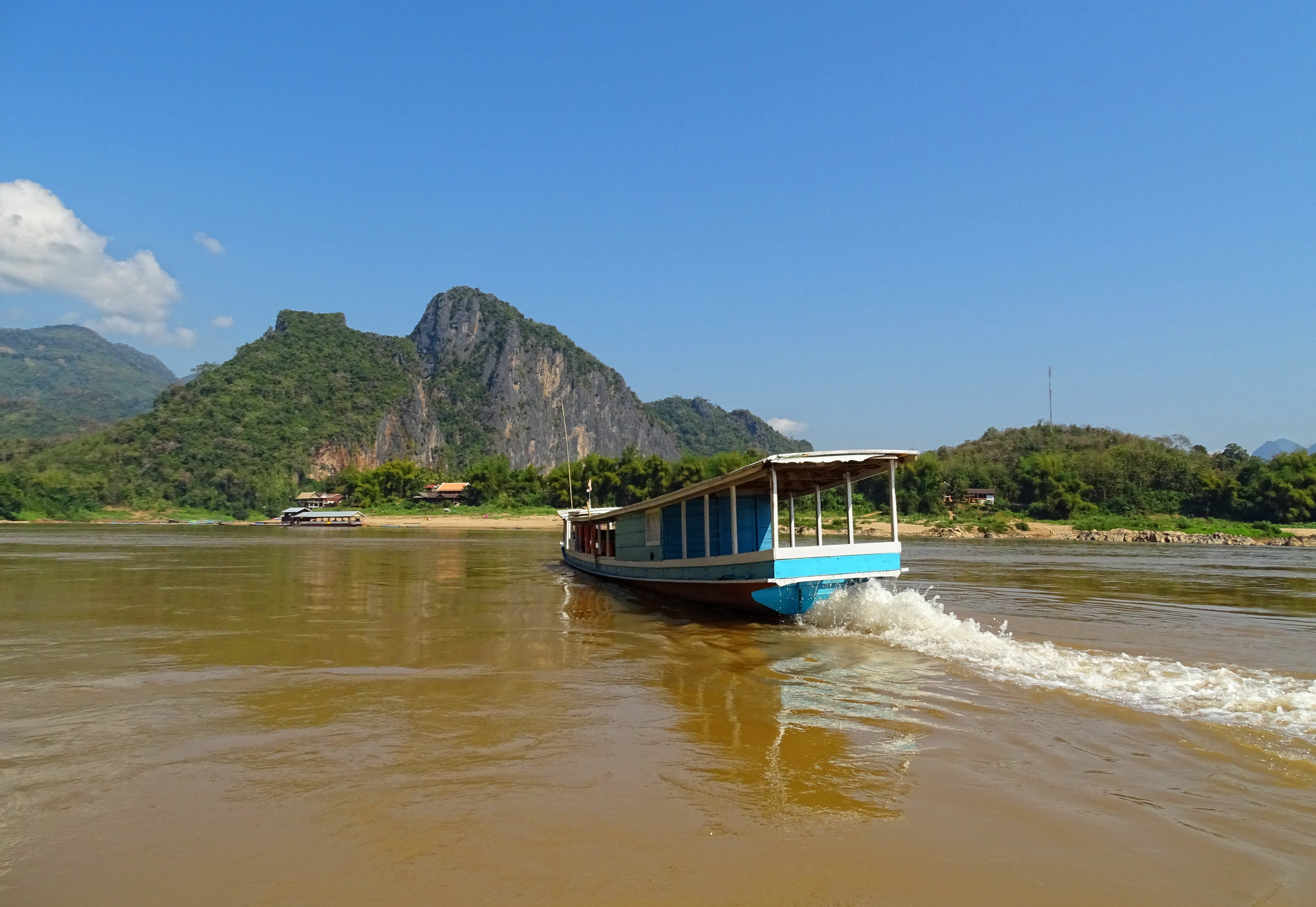 The Mekong River upstream from Luang Prabang, Laos. Boats like this one ferry passengers between Luang Prabang and the Pak Ou Caves.